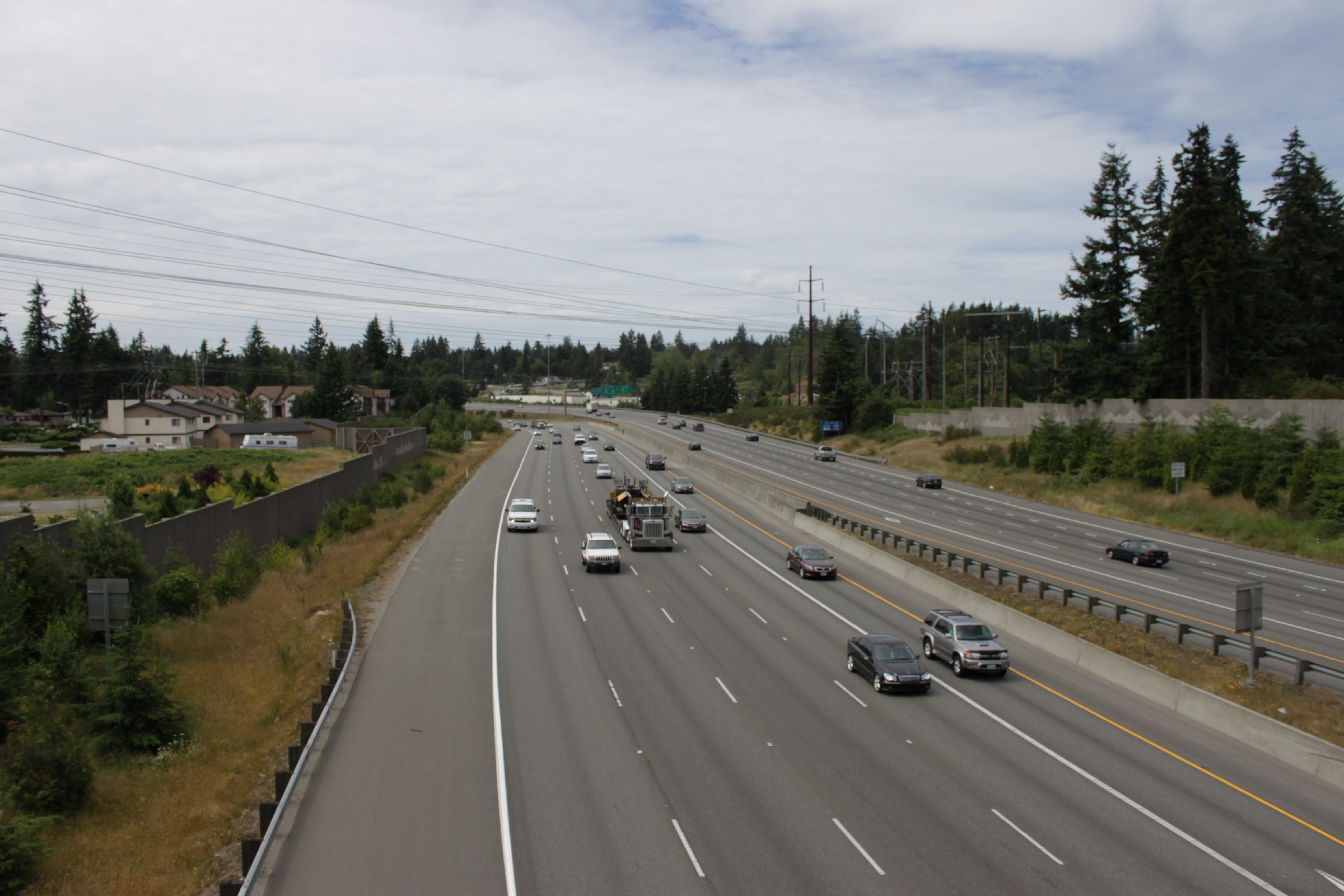 Looking south on Interstate 5 in Everett, Washington, approaching the SR 99 / SR 526 / SR 527 junction.